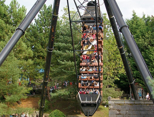 Chessington World of Adventure and Zoo.